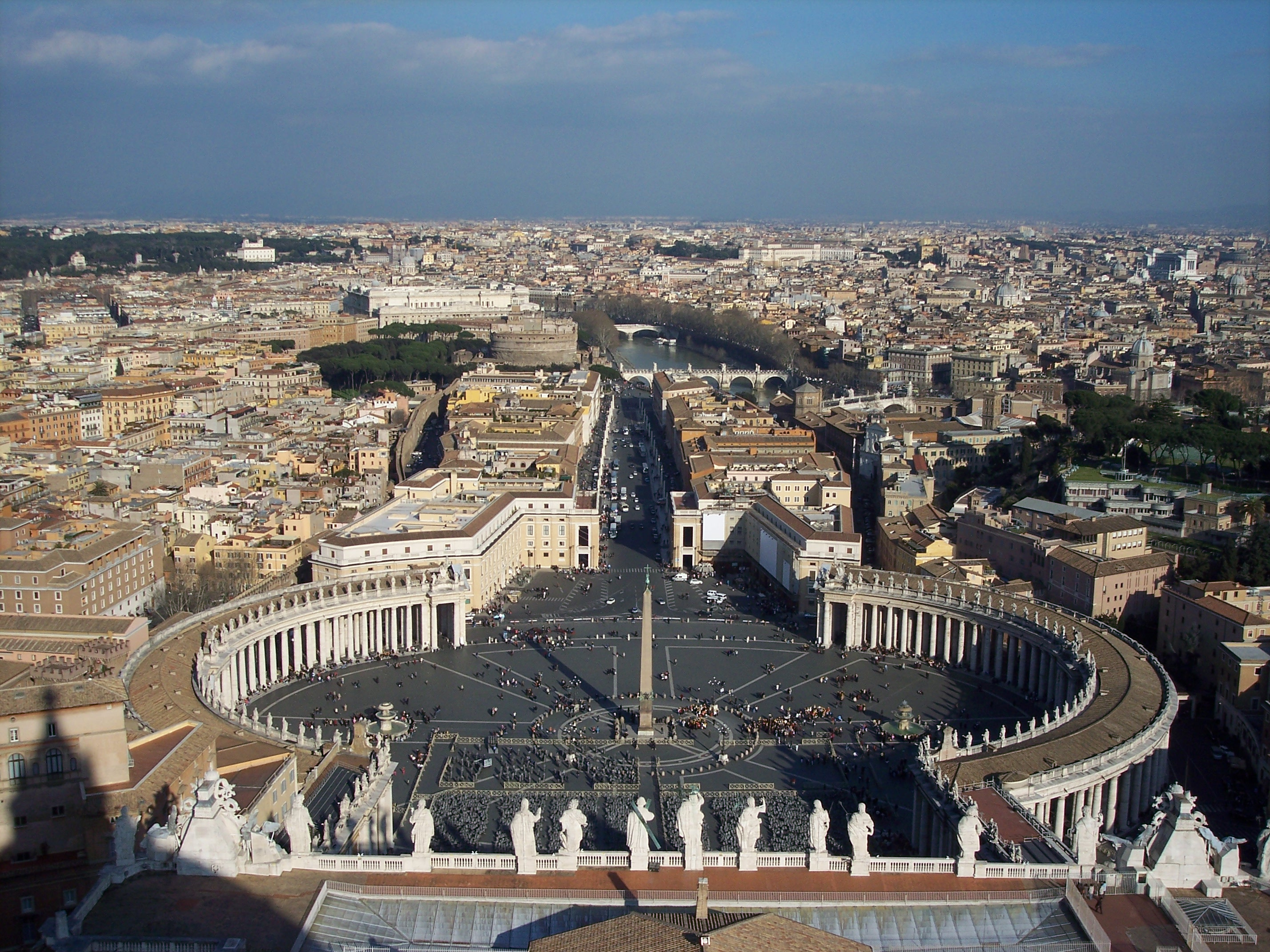 A view of Rome from the top of the Vatican dome.